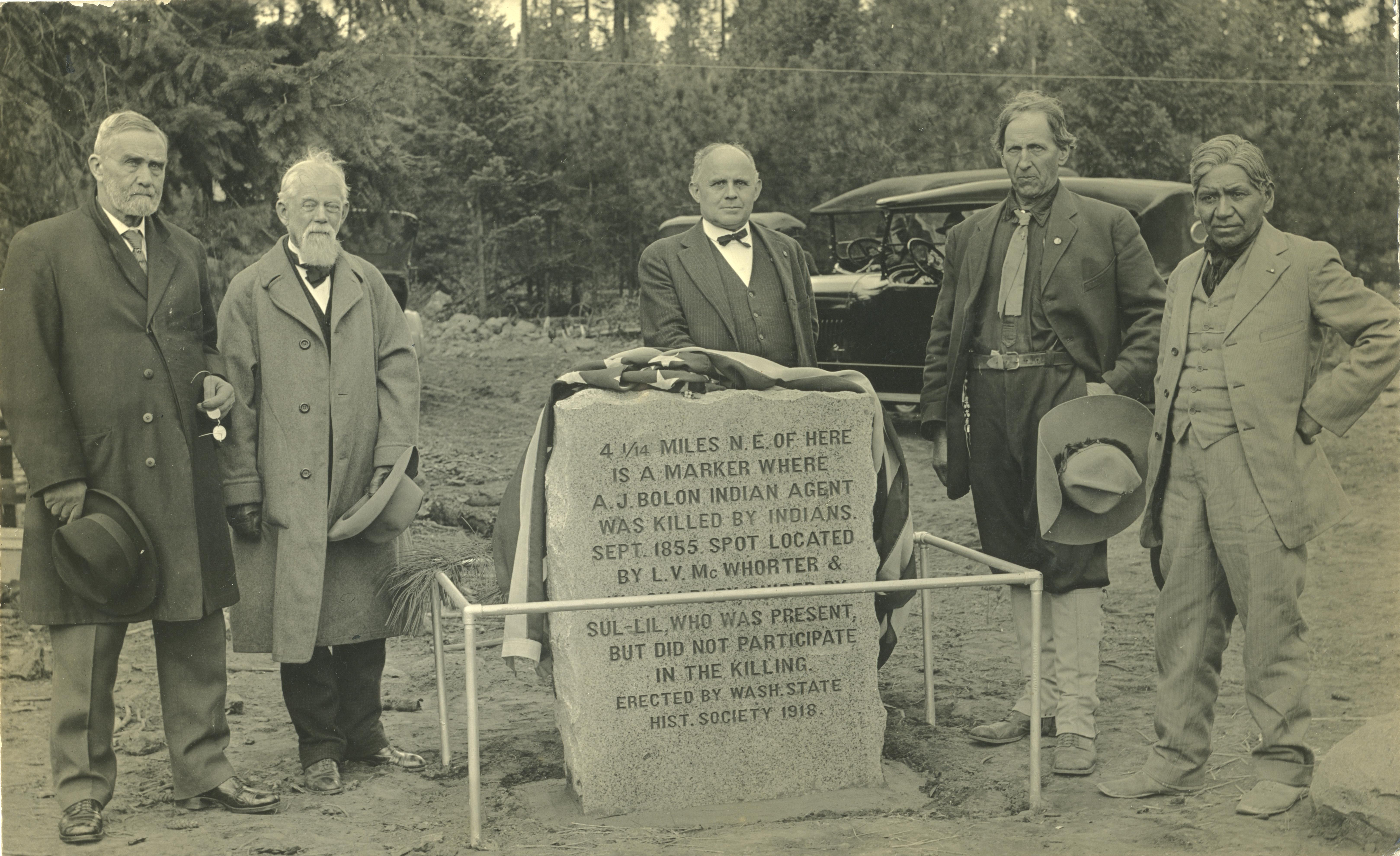 Shows George H. Hines, Hazard Stevens, W.T. Bonney, Lucullus V. McWhorter and William Charley at the Andrew J. Bolon monument in Goldendale, Washington, October 1918.